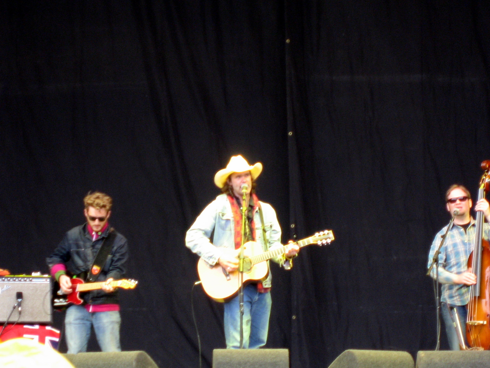 On the Pyramid Stage on Sunday morning